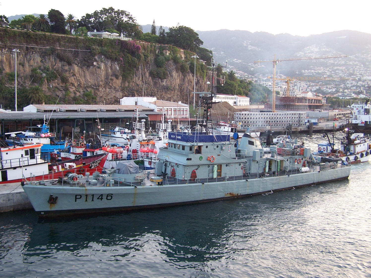 Ship NRP Zaire anchored at Funchal, Madeira Island's port.